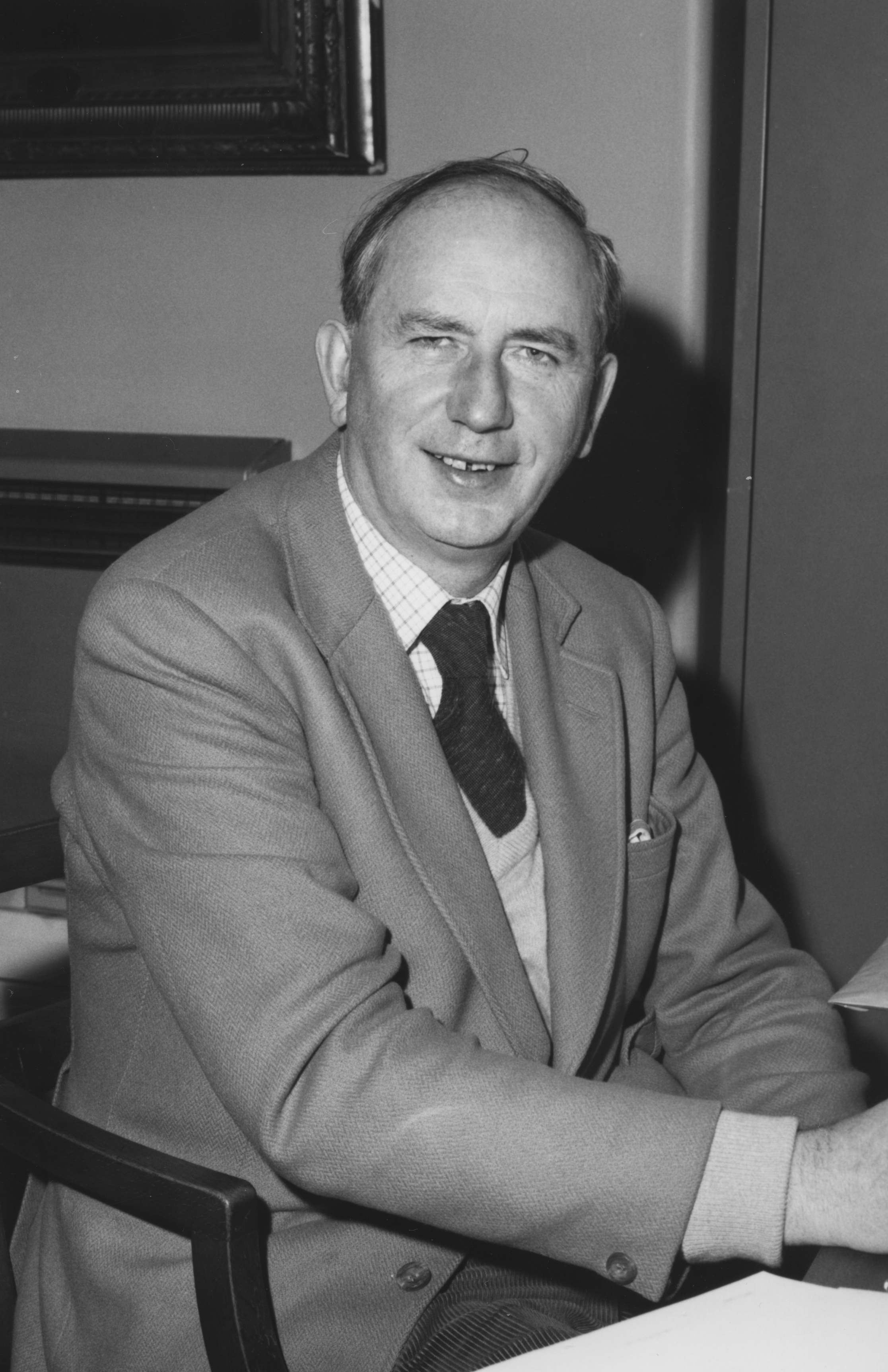 Reader, Government Department, 1948-1963, Professor of Public Administration from 1963-1982, died on 29 March 1999 aged 79 'Peter Self, Professor of Public Administration from 1963 until he took early retirement in December 1982, was the second holder of the chair created initially for William Robson. He was educated at Lancing College, and read PPE at Balliol College, Oxford. He was on the editorial staff of The Economist from 1944 to 1962 and was a Extra-Mural Lecturer of London University from 1944-1949. He came to the School in 1948 as lecturer in Public Administration and was promoted to a Readership in 1961....He was no ivory-towered academic. As a Director of Studies at the Civil Service Department he helped to establish the first set of courses at the Civil Service College. He was a force in the Town and Planning Association and a member of the South East Economic Planning Council...His hobbies were walking (he knew almost every corner of the United Kingdom), golf and making up and telling detective stories.' LSE Magazine, June 1983, 1965, p19 In 1982 heembarked on a career as Senior Research Fellow and then Visiting Fellow at the Australian National University in Canberra. IMAGELIBRARY/258 Persistent URL